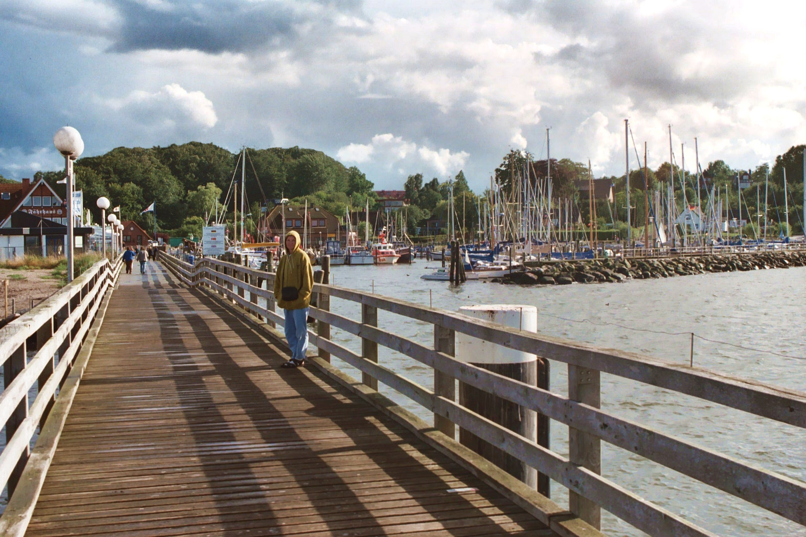 Langballig, the mole